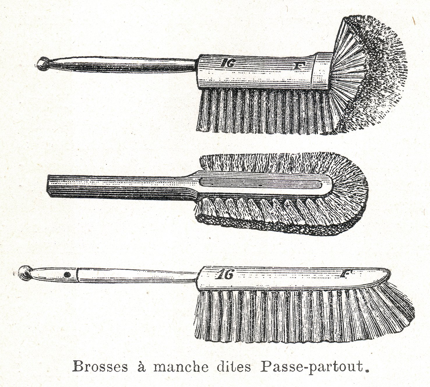 Brush. Picture from "Dictionnaire encyclopédique de l'épicerie et des industries annexes" par Albert Seigneurie, édited by "L'Épicier" in 1904, page 122.